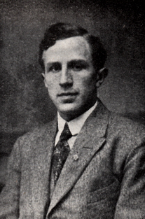 This is a photo of Jan de Boer, former goalkeeper of AFC Ajax dating from the 1920's.